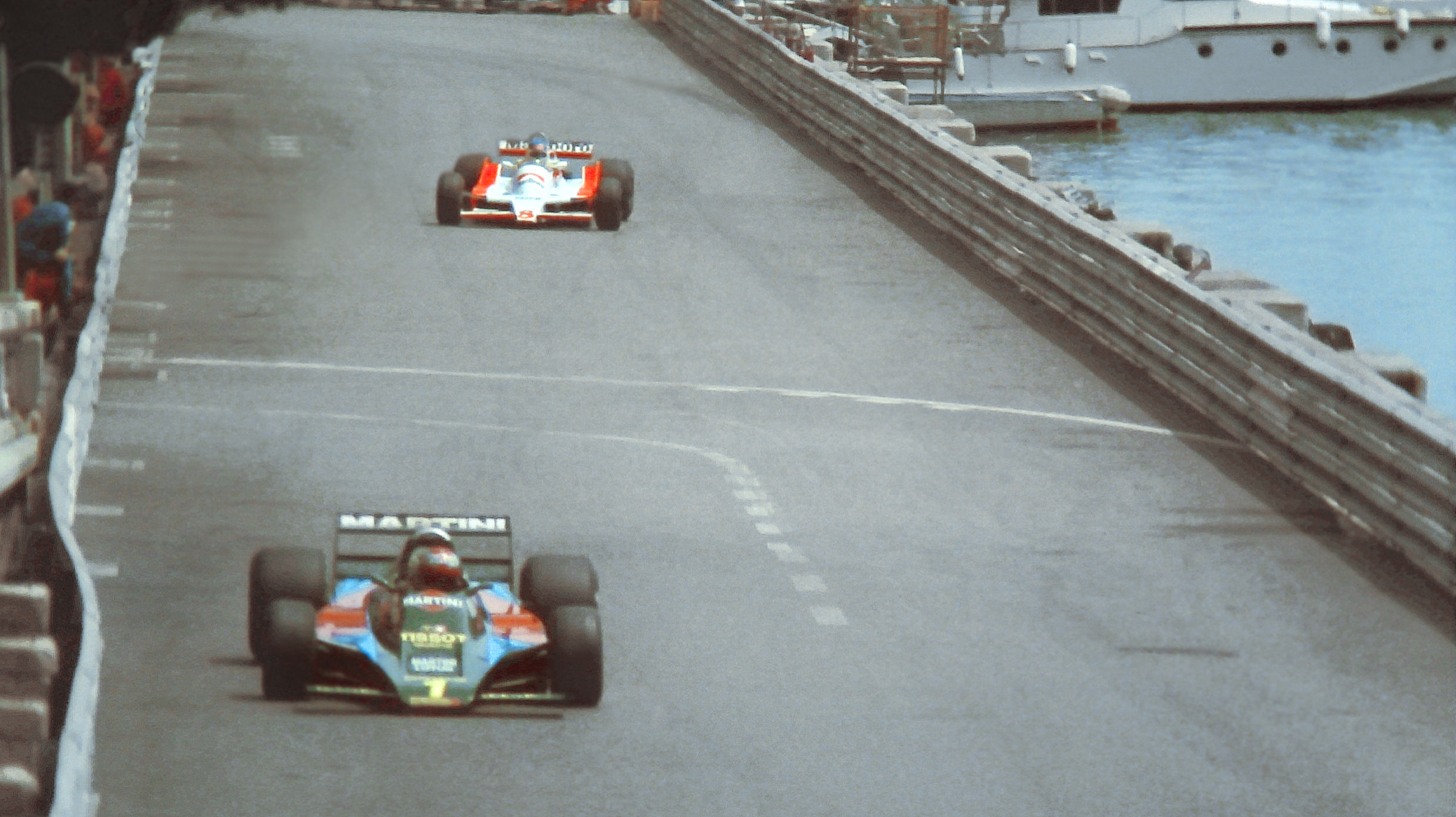 Mario Andretti - Lotus 80 approaches Tabac during practice at the 1979 Monaco Grand Prix